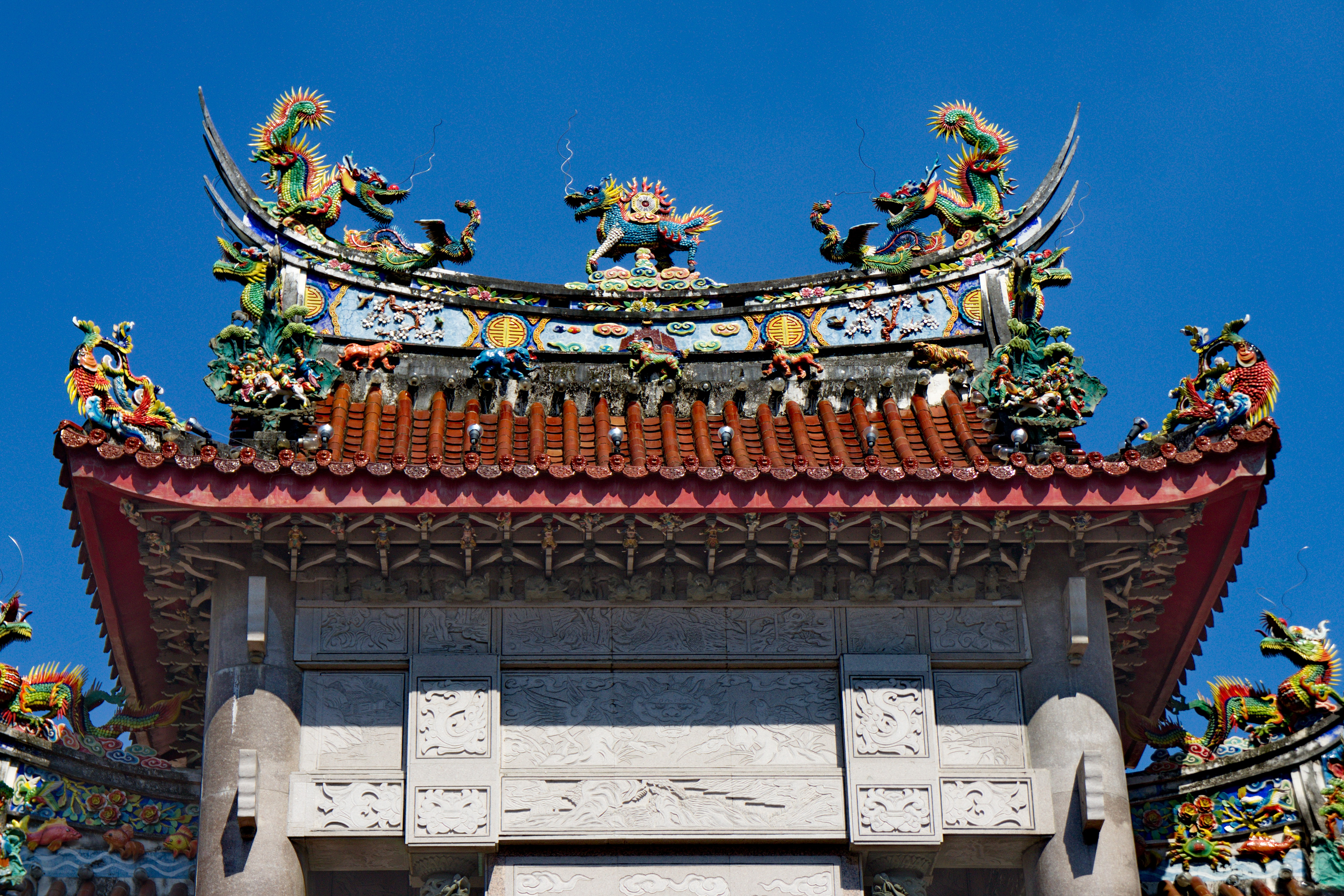 The Pailou (arch) of the Chiayi Cheng Huang (City God) Temple, Taiwan.